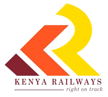 Logo of the Kenya Railways Corp. (KRC) Kiswahili: Nembo ya Kampuni ya Reli ya Kenya